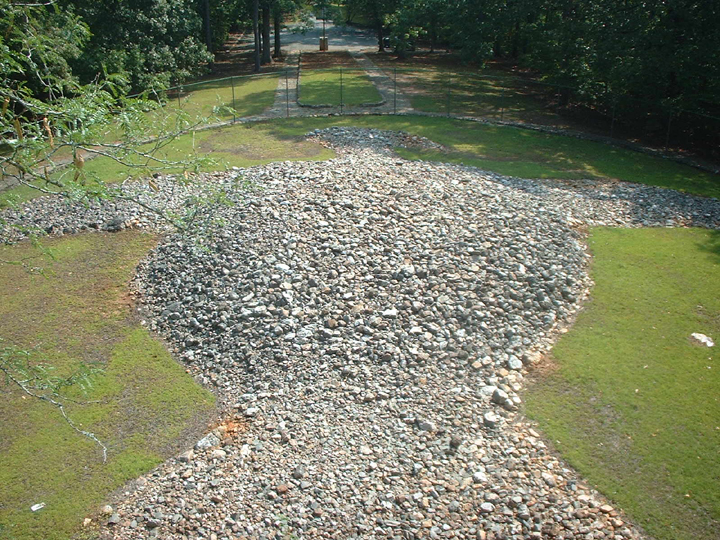 I took this photograph 26 August 2007. It depicts the Rock Eagle Effigy Mound in Putnam County, Georgia, USA.